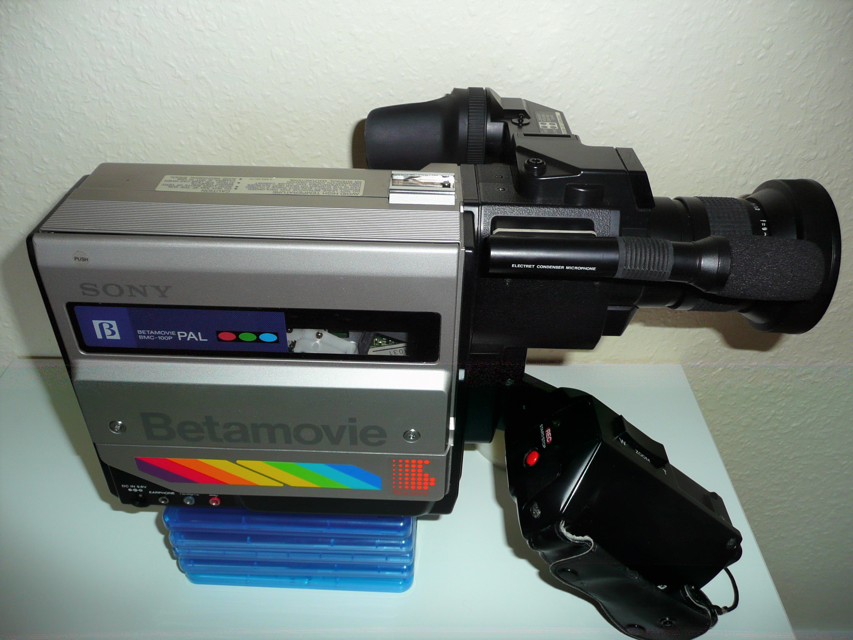 Sony Betamovie BMC-100P is an early camcorder (combined video camera and videocassette recorder) for the Betamax format. Released in 1983.